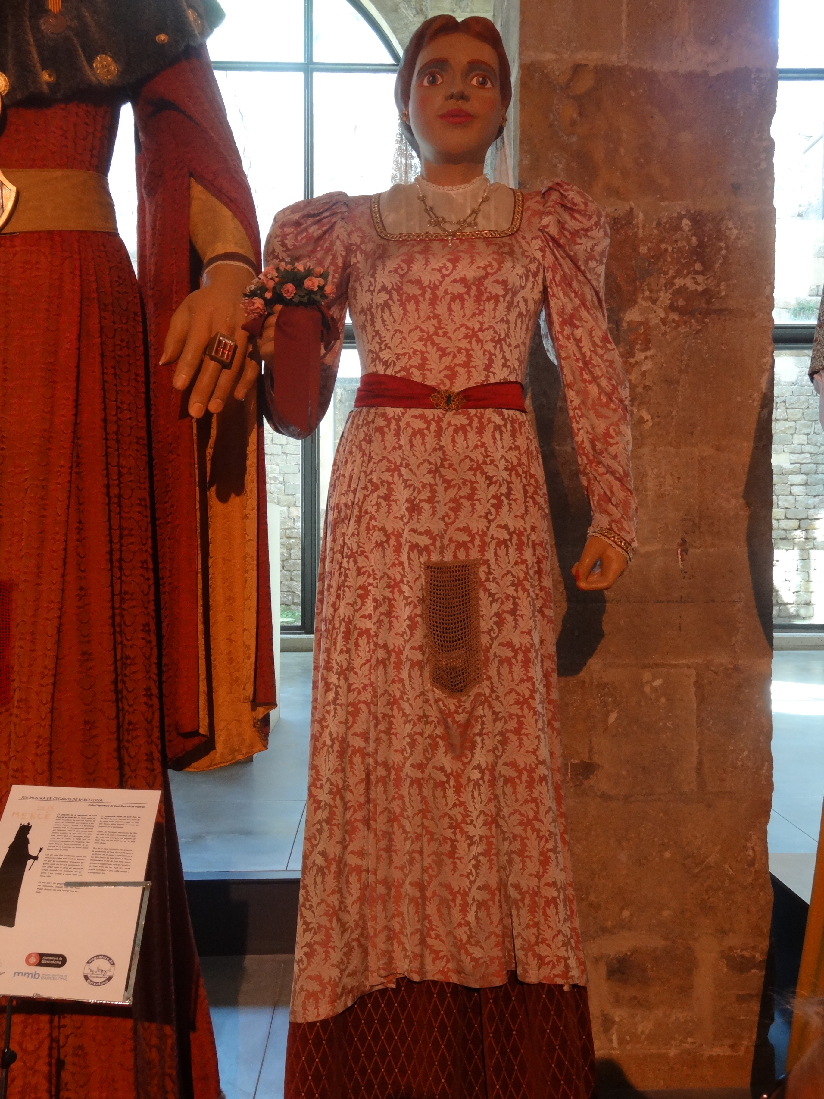 Exhibition of Giants at the Museu Marítim, Barcelona, 2013.